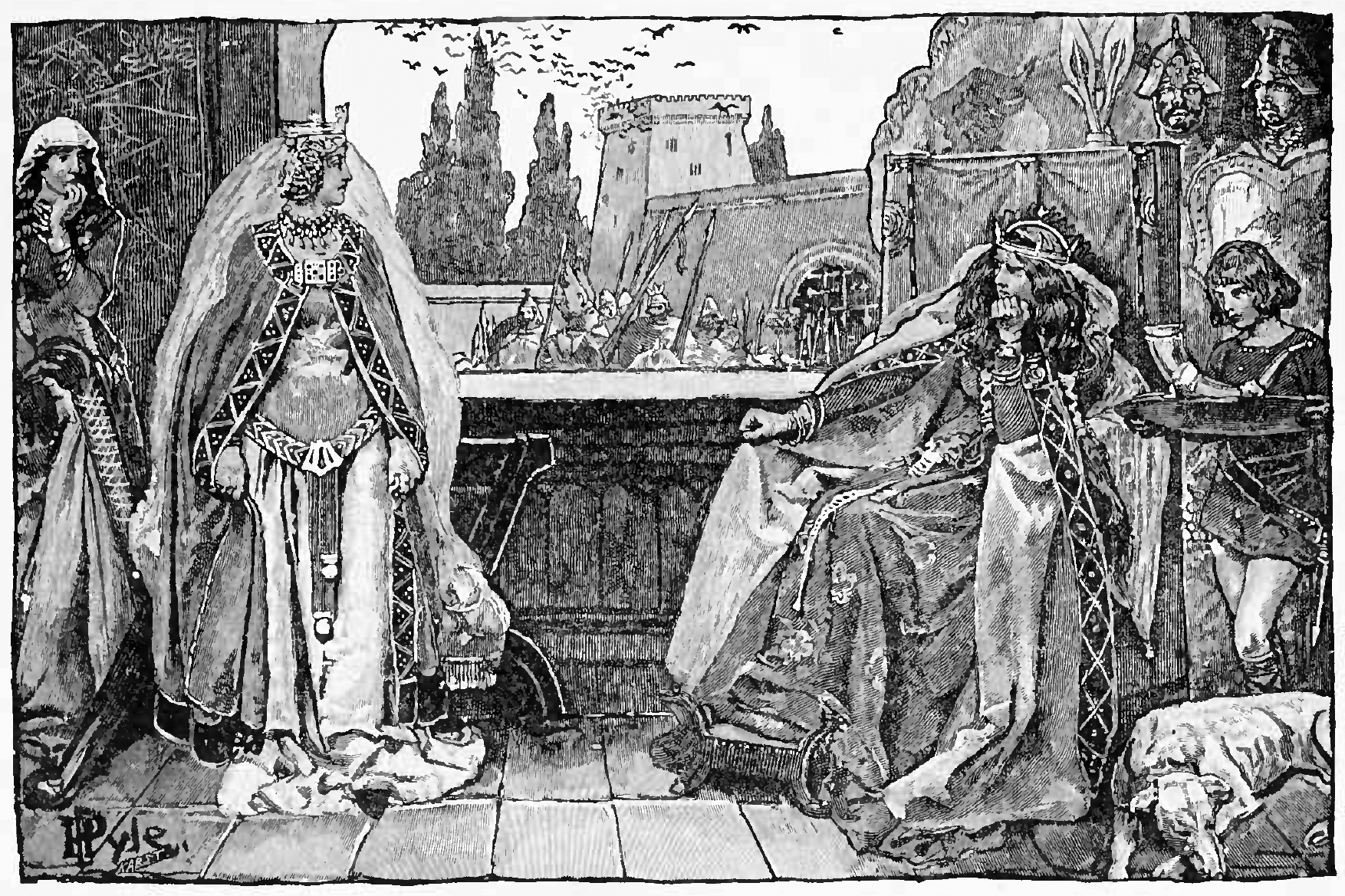 Captioned as "The Quarrel of the Queens". A scene from the Nibelungenlied.